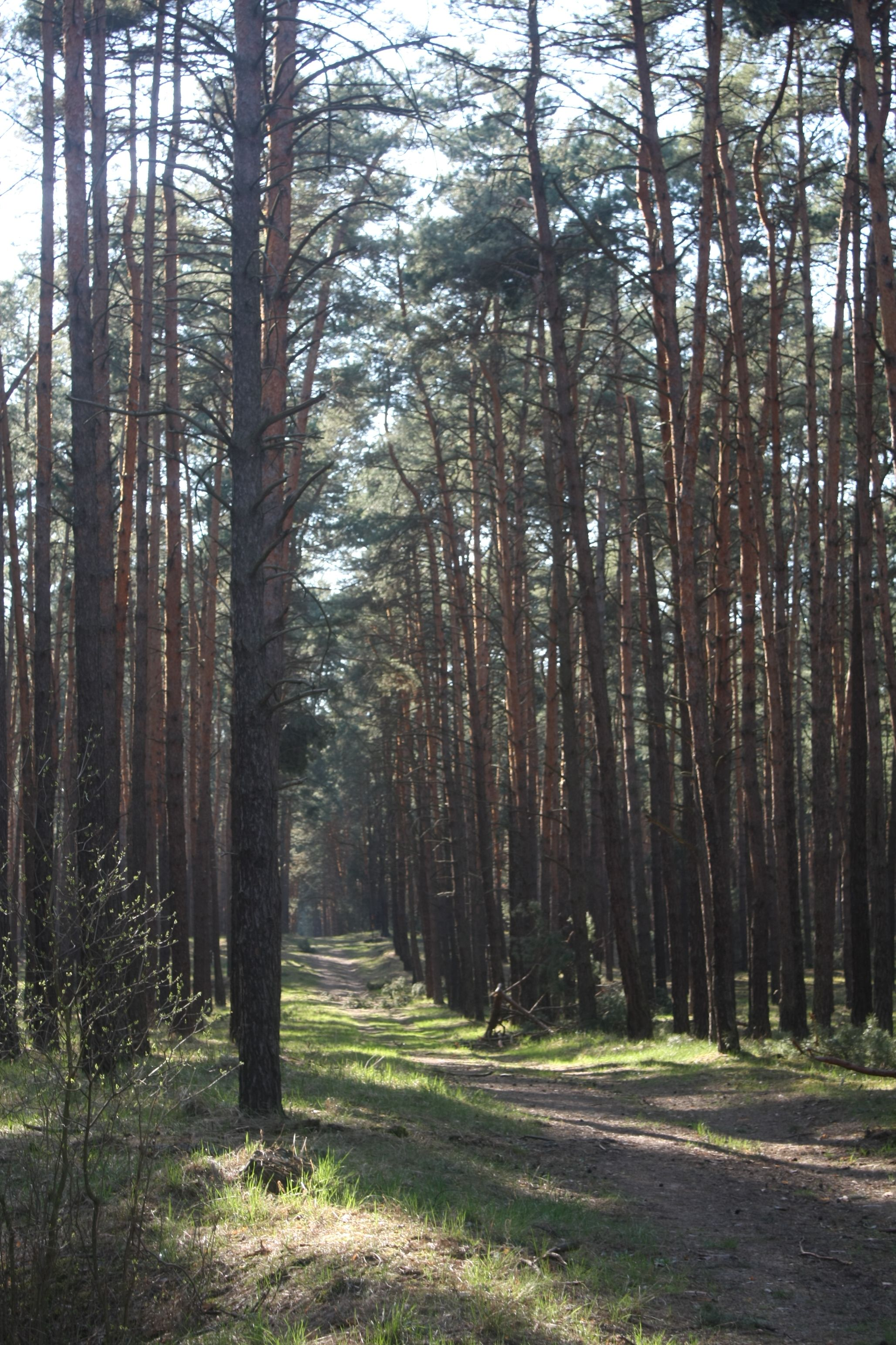 Bzenec-Přívoz (Hodonín district, Czech Republic) - Váté písky u Bzence natural monument